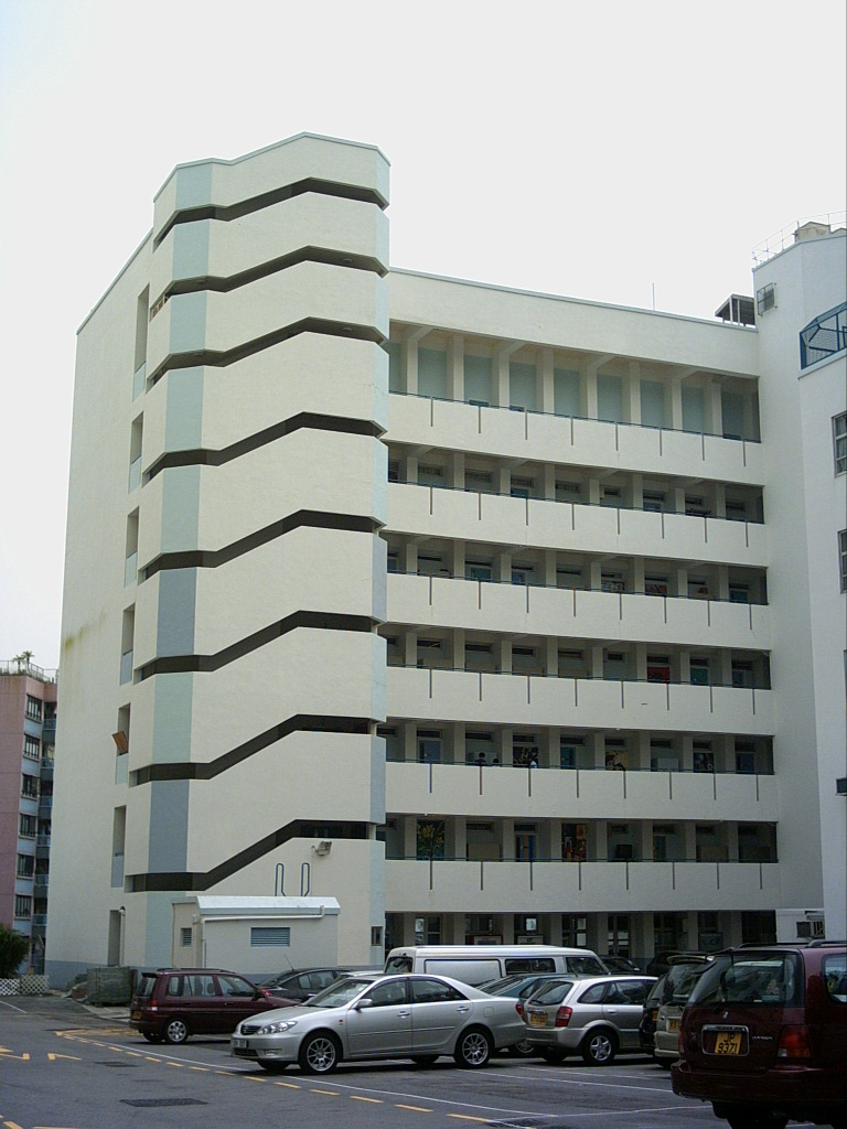 3rd block of Sha Tin College. Taken by myself in August, 2006.